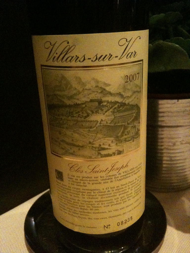 Villars-sur-Var 2007